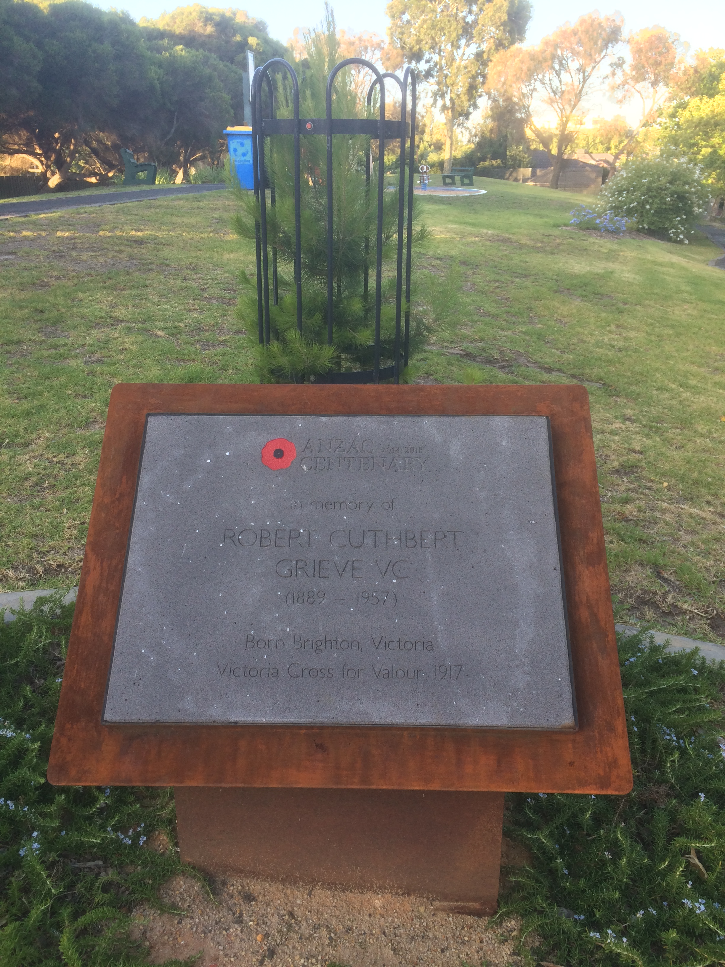 Plaque for Robert Grieve at Burrows Street Reserve, Brighton, Victoria.